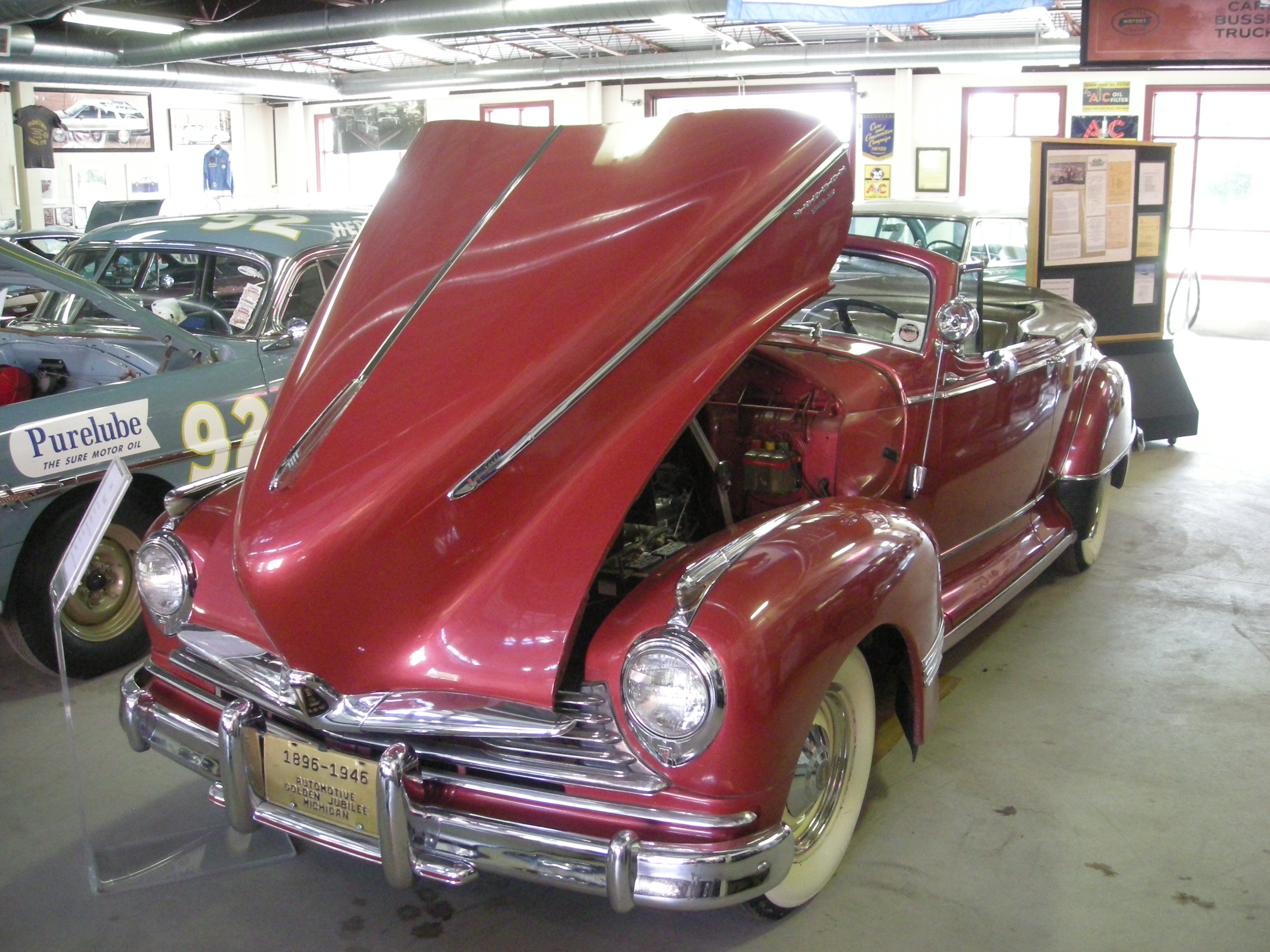 A 1946 Hudson at the Ypsilanti Automotive Heritage Museum in Ypsilanti, Michigan (United States).